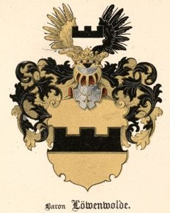 Coat of arms of Löwenwolde family.